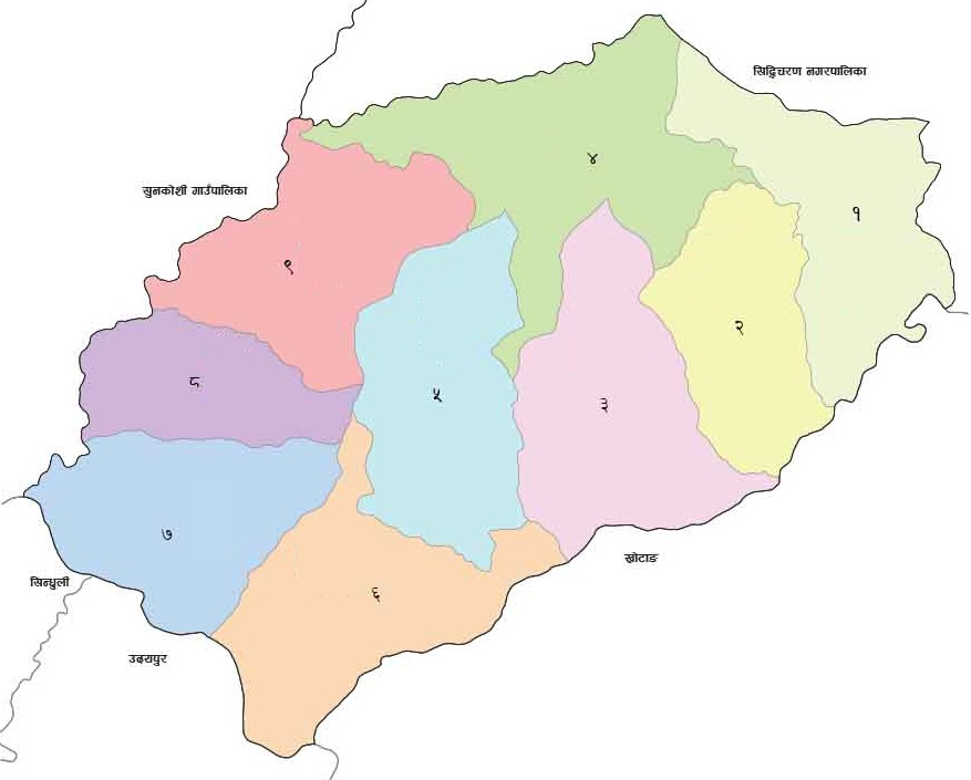 Manebhanjyang